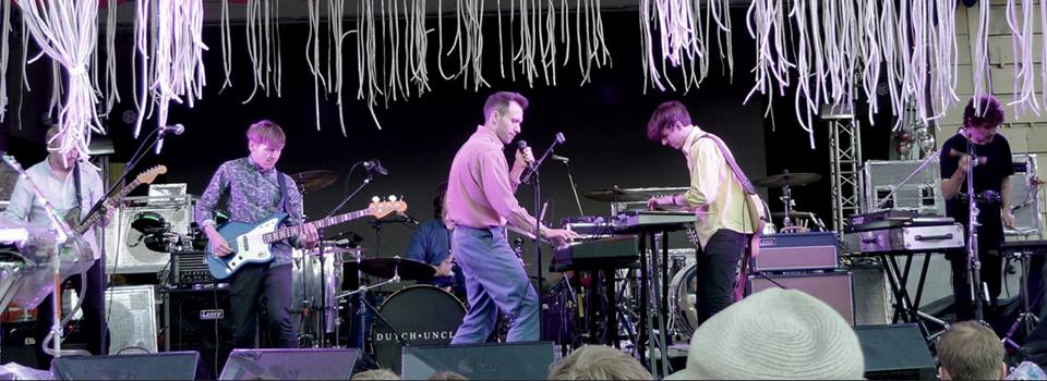 Dutch Uncles performing at Edinburgh Castle, Scotland